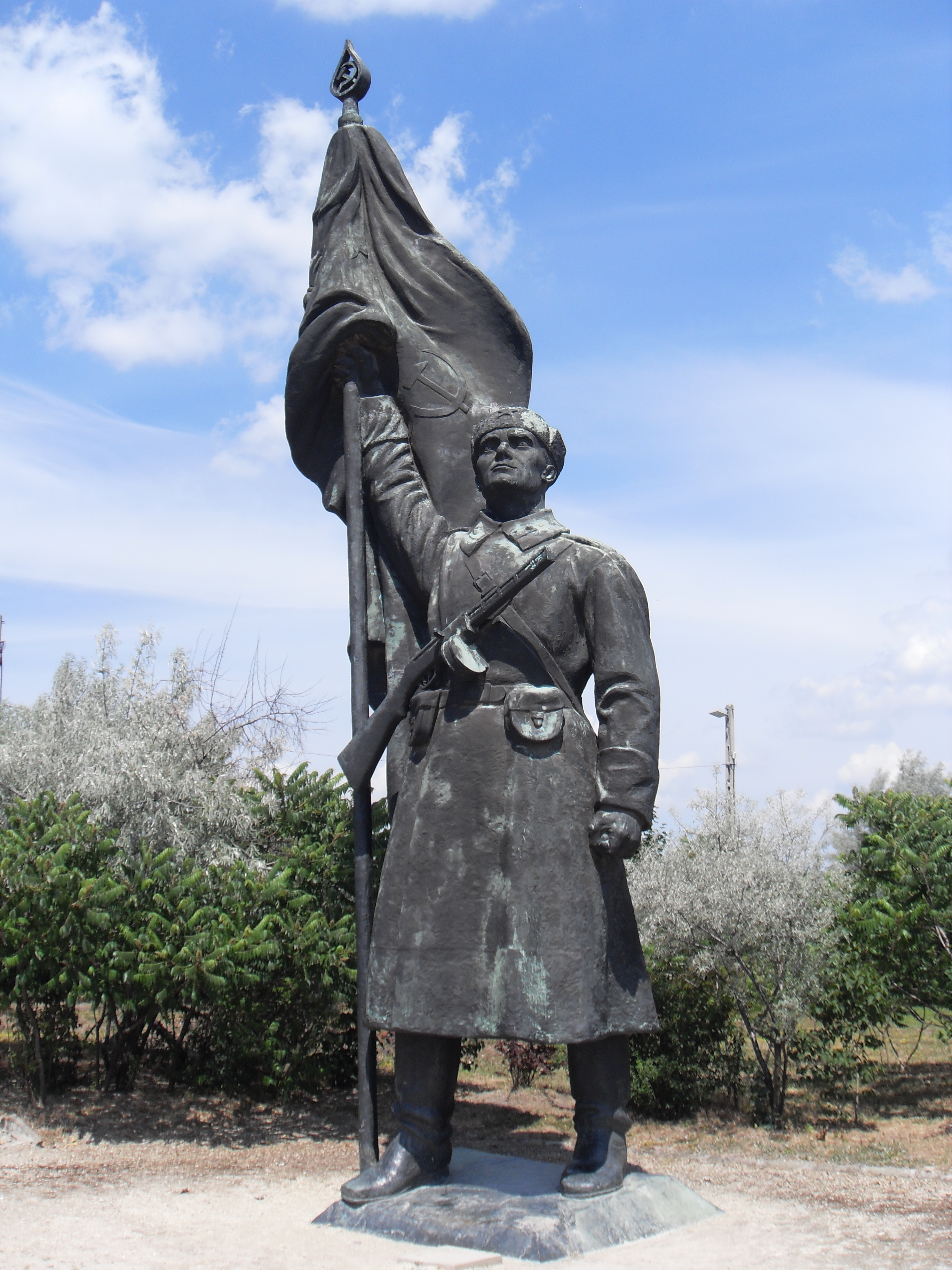 Red army soldier statue which stood below the Liberation Monument (Szabadság szobor) at the top of the Gellért Hill (Gellért-hegy) of Budapest. The 6 meter hight bronze soldier, with clenched fist while his right hand holds a flag, was part of the Liberation Monument on Gellért Hill, the highest place in Budapest. It was erected in 1947 to commemorate Hungary's liberation from the Nazis and the fallen soviet soldiers. During the national uprising in 1956 the original soviet soldier was destroyed but two years later a new copy of the soldier satue was replaced again to the monument. After the fall of Communism, the new soviet soldier was removed again from the monument and now stands in the Memento Park.